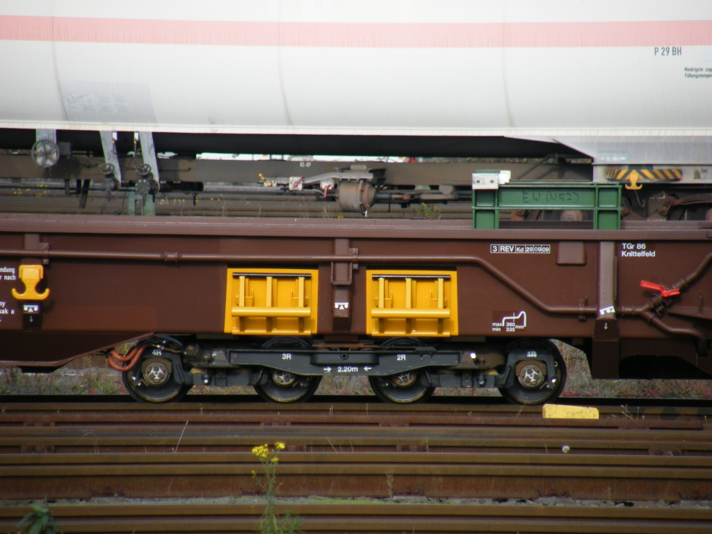 bogie of a "Rollende Landstraße" lowfloor freight car